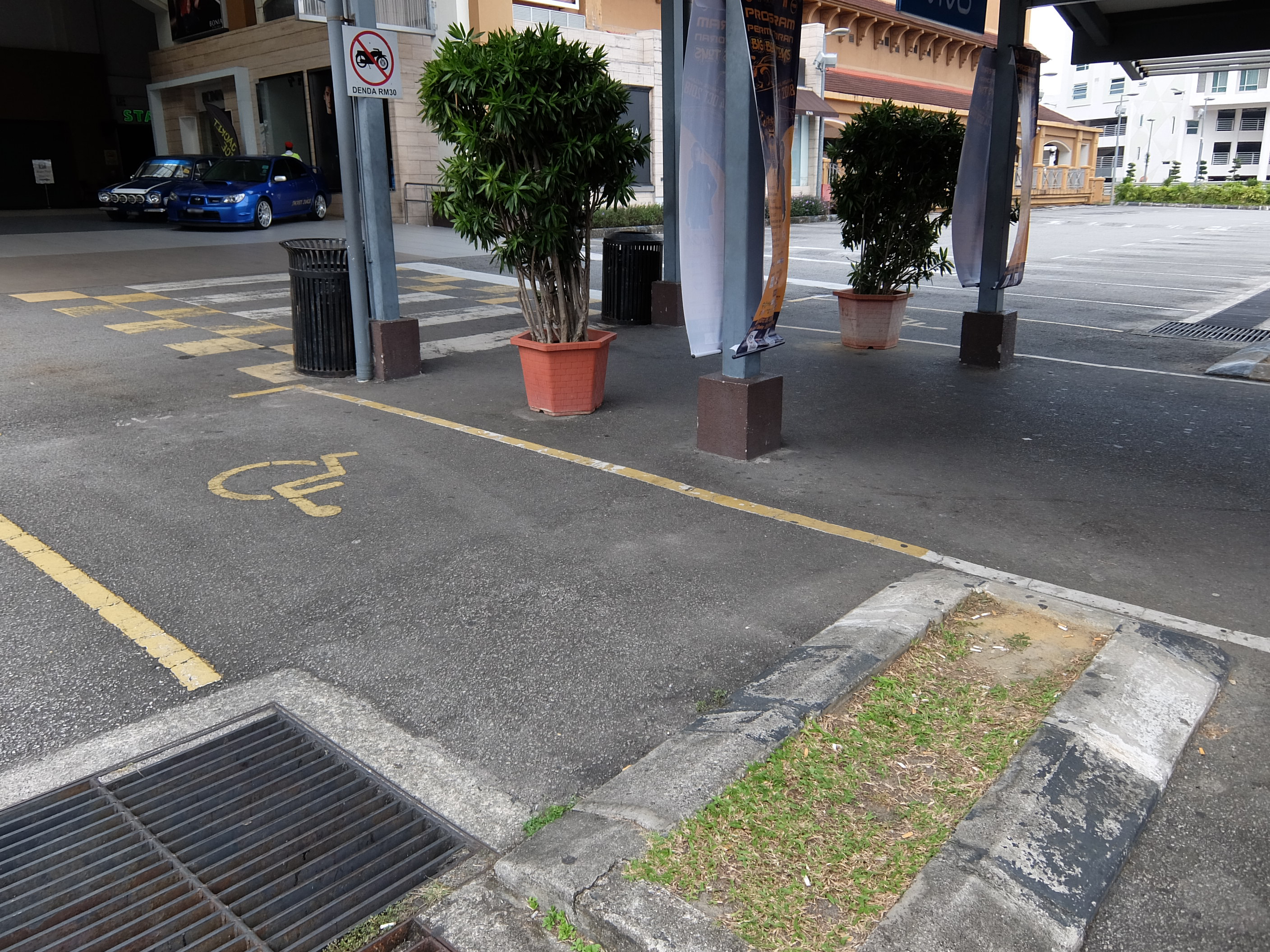 Mahkota Parade, Melaka City, Central Melaka, Melaka, Malaysia